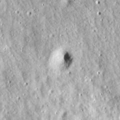 Spur crater, Hadley–Apennine region, on the moon. Sun elevation 14 deg., spacecraft altitude 101 km.